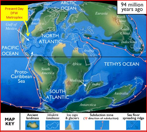 Placement of Tectonic Plates and DFW location around ~94 million years ago